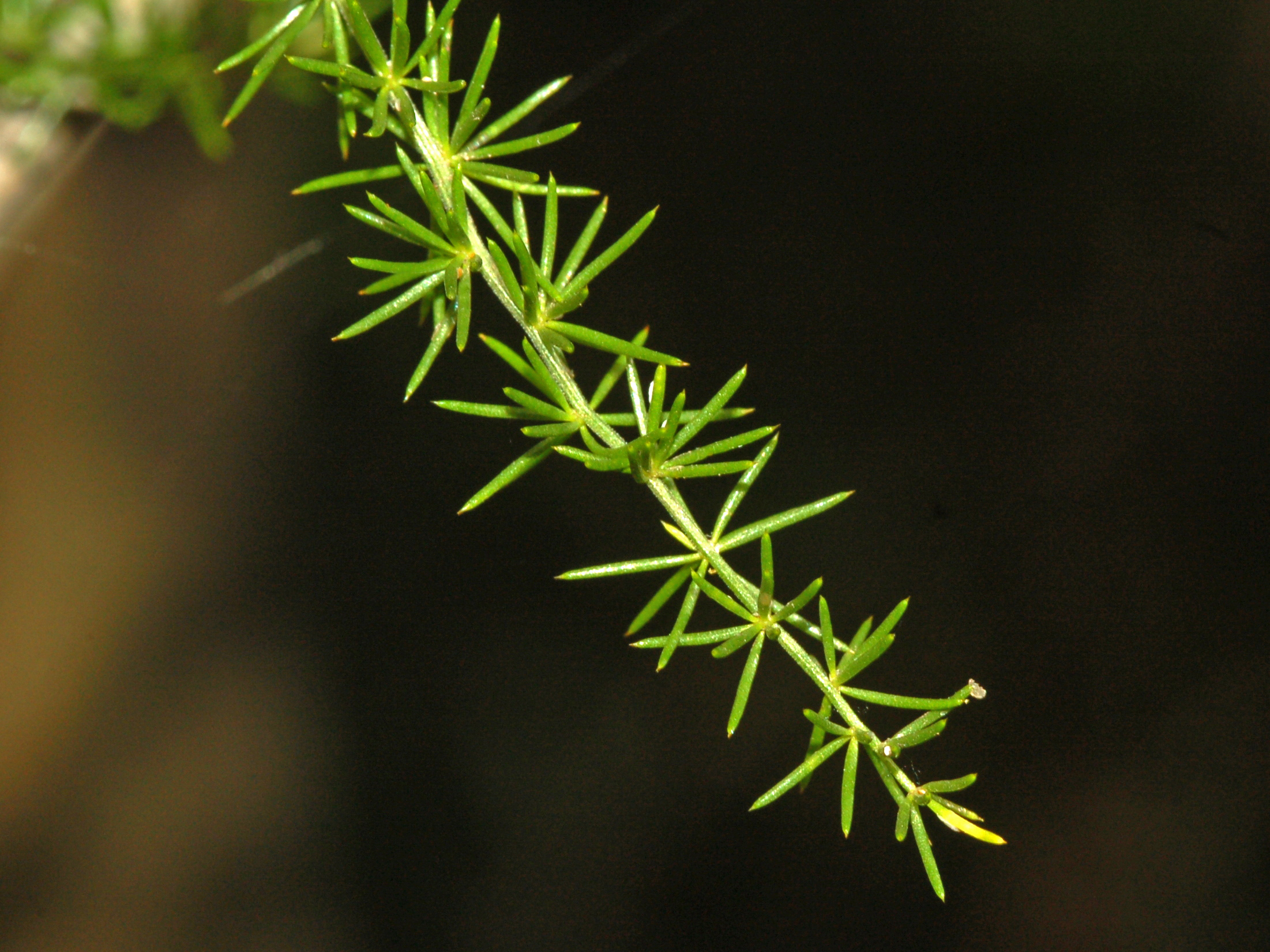 Asparagus acutifolius - Genova, Italy